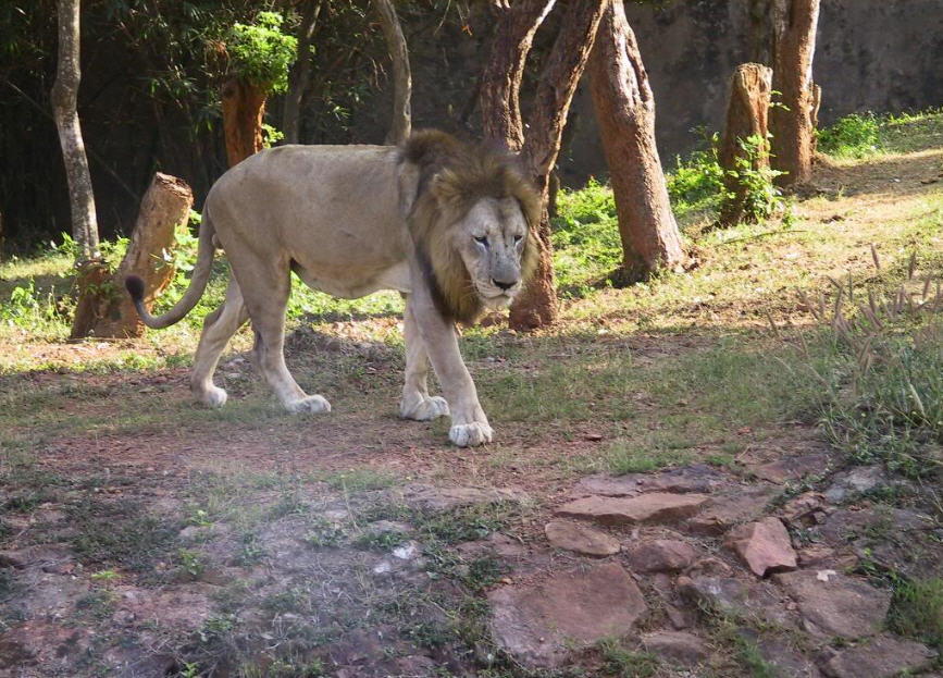 Lion in Nandankanan Zoological Park in Bhubaneswar, Odisha.